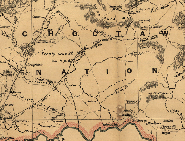 Indian territory: compiled from the official records of the records of the General Land Office and other sources under supervision of Geo. U. Mayo.